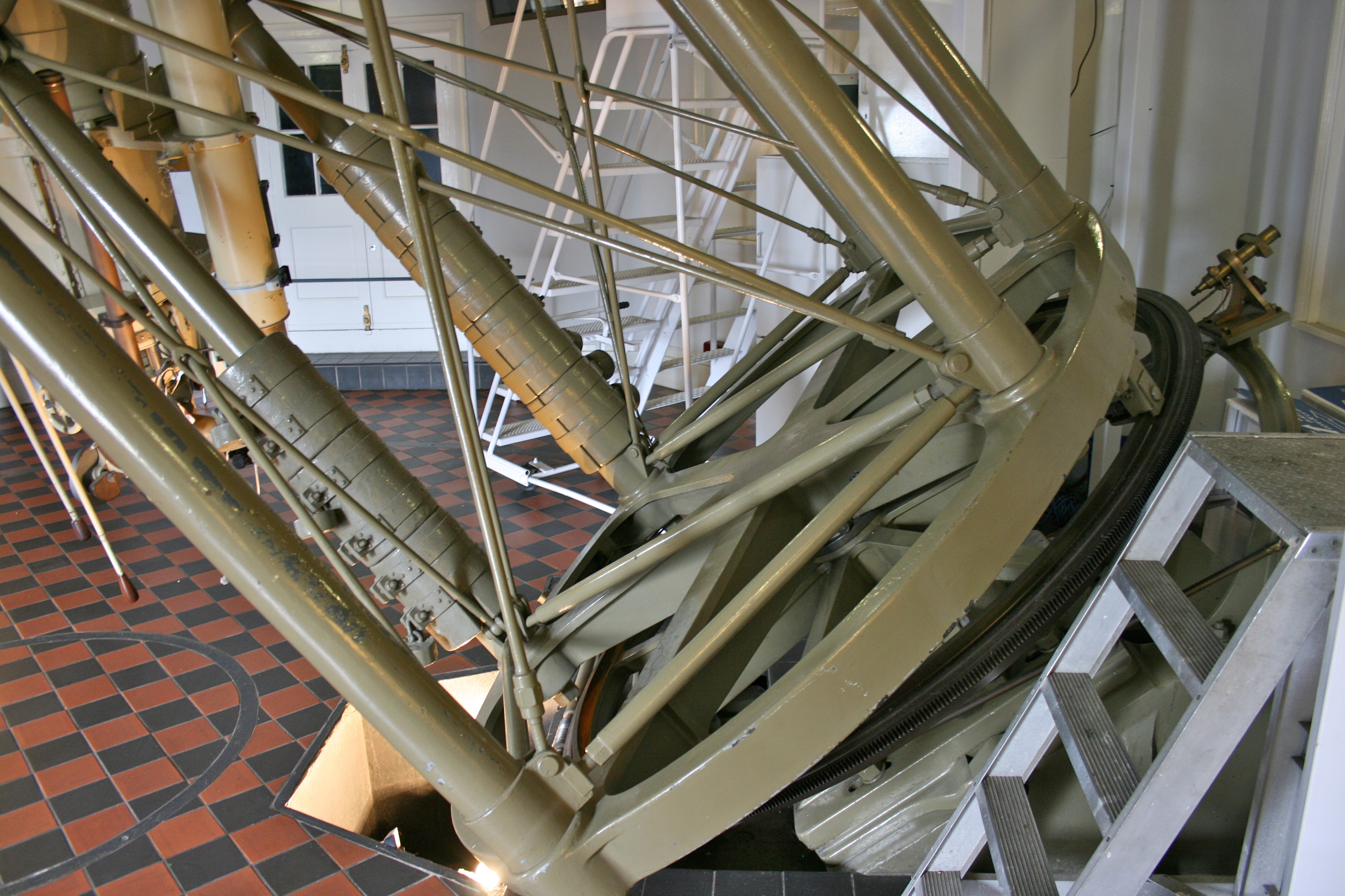 28" telescope at the Royal Observatory, Greenwich